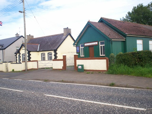 Corcreeny Orange Hall and Gibson's Hill Gospel Hall. Corcreeny Village is situated on the main road between Lurgan and Gilford.